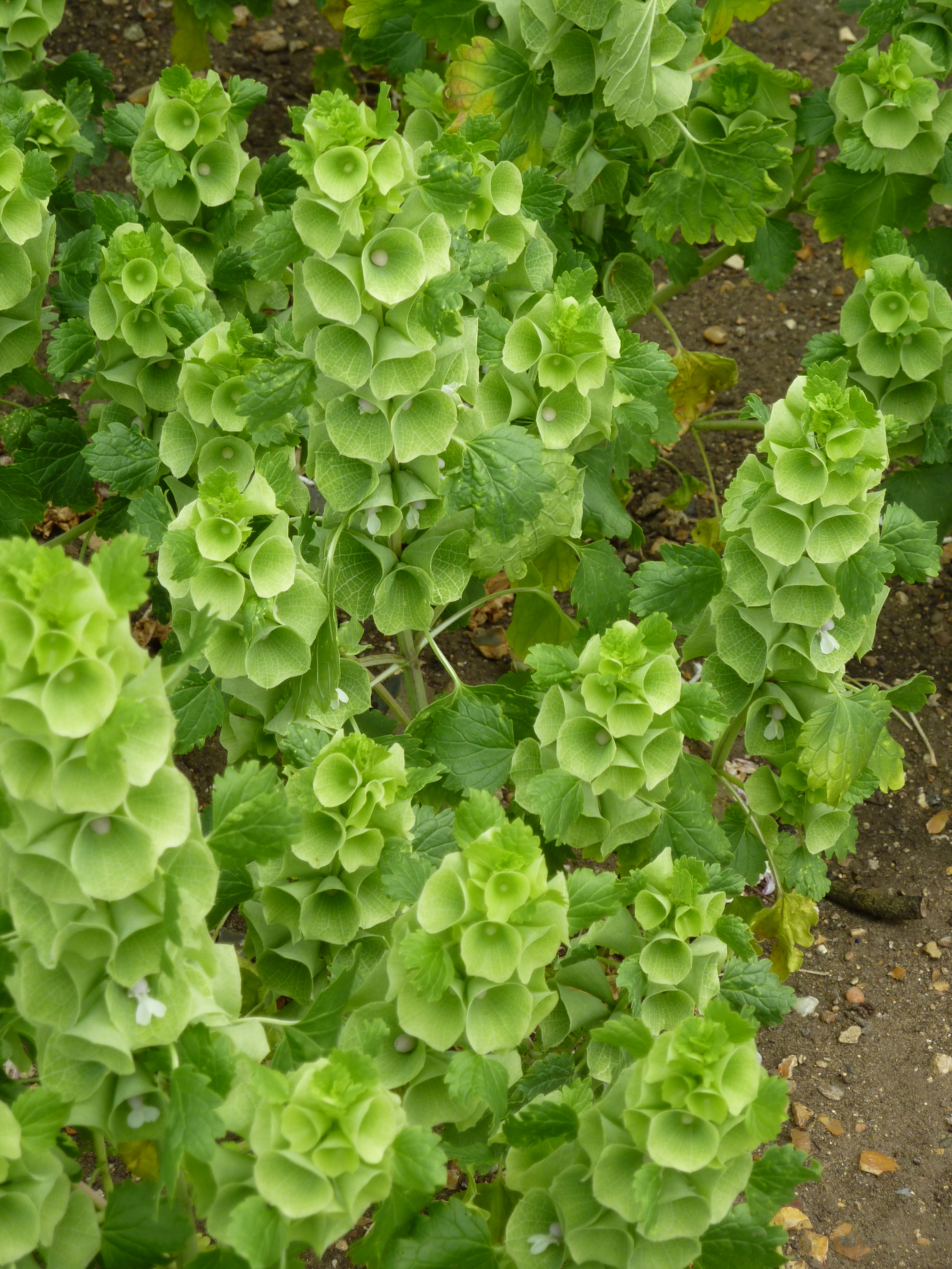 Taken in the Cambridge University Botanic Garden